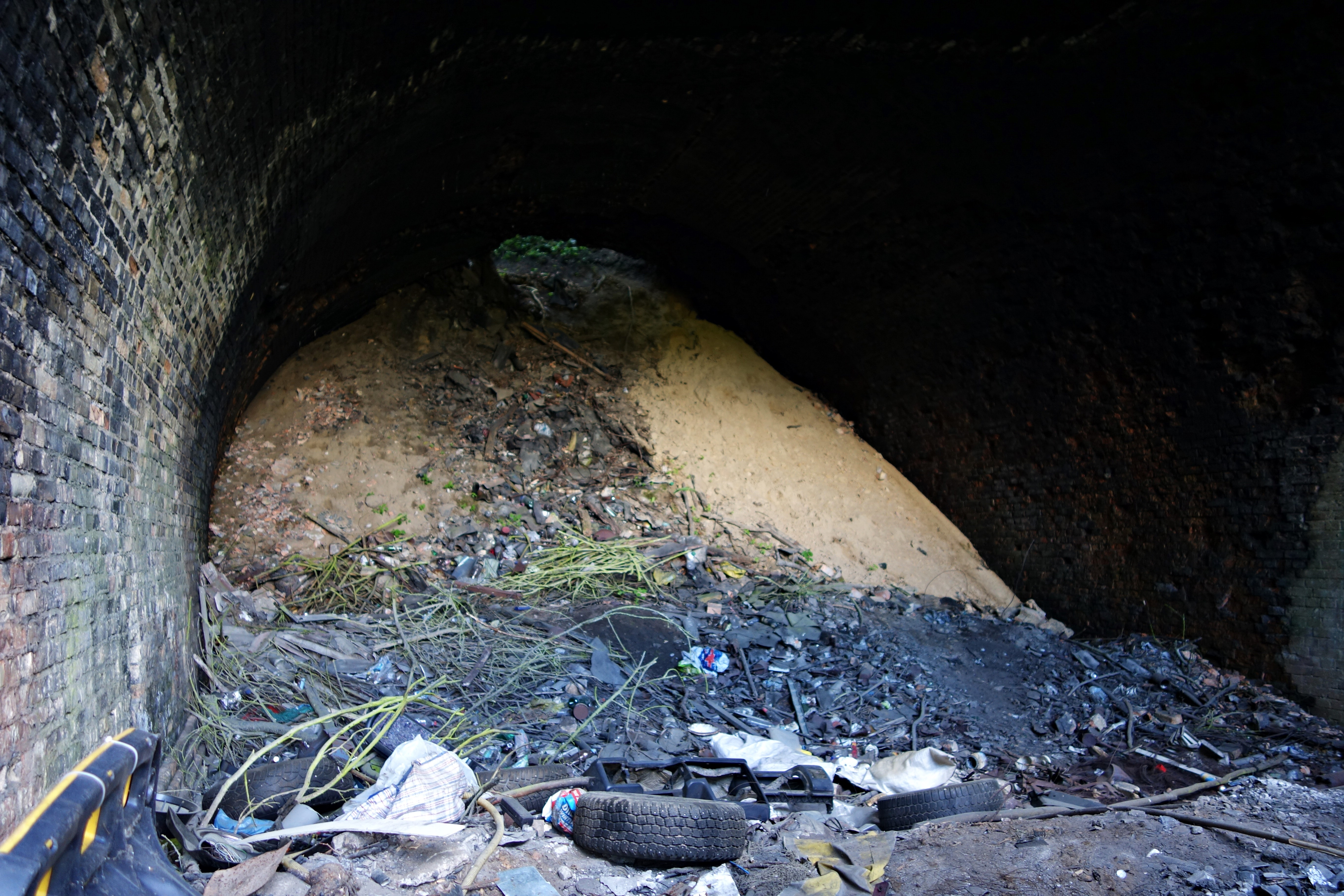 The Paneriai tunnel is filled with sand a few meters after the eastern portal. No opening to the rest of the tunnel behind the sand wall is visible. Parts of the ceiling are collapsed and daylight from above the tunnel is visible.